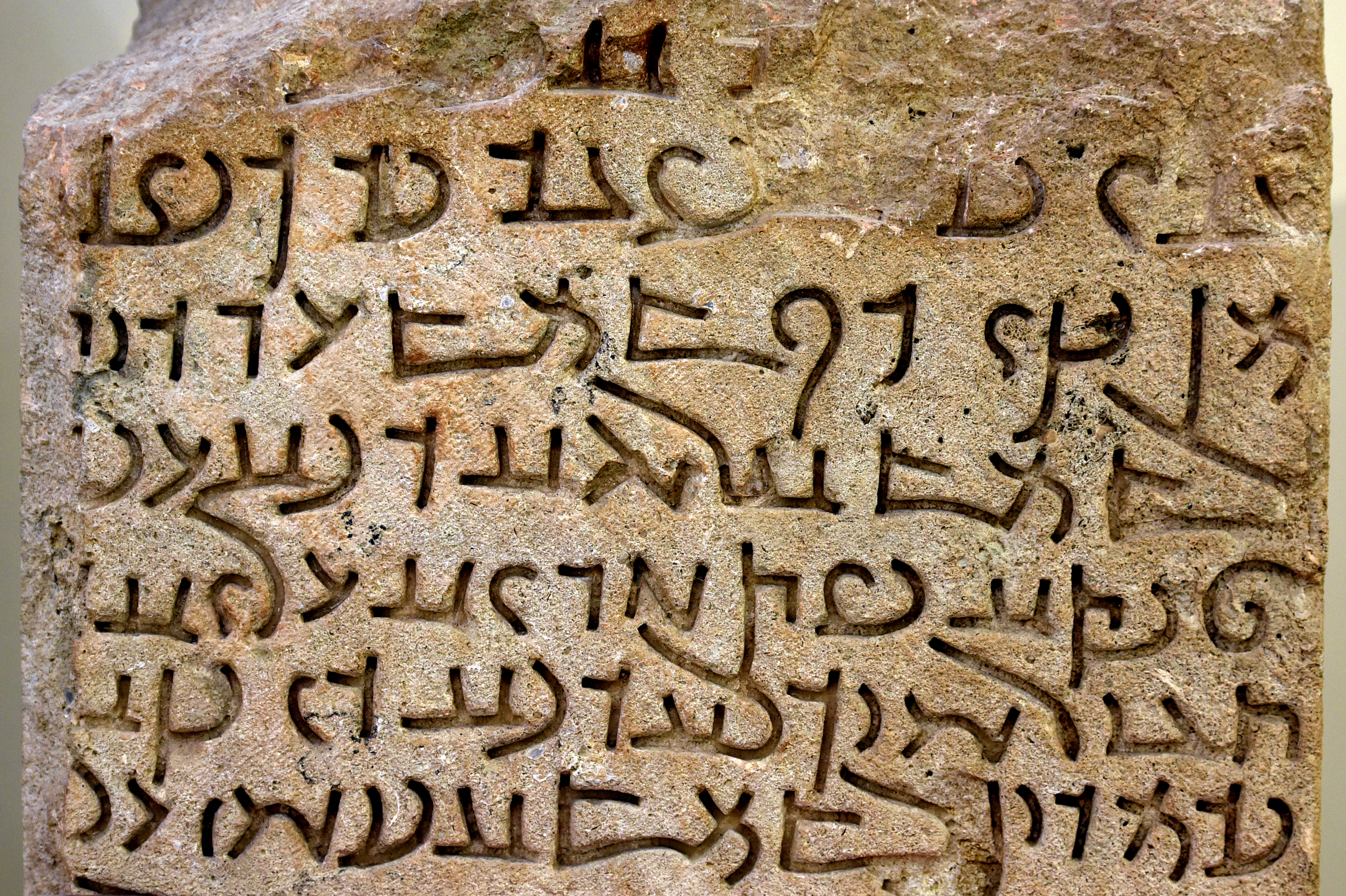 This limestone slab is inscribed with an Aramaic Hatran inscription. The name of the city of "Hatra" as the center of the region "Araba" (Kingdom of Araba) appears. From the 11th temple at Hatra, Ninawa Governorate, Iraq. Parthian period, 1st to 3rd century CE. On display at the Iraq Museum in Baghdad, Iraq.